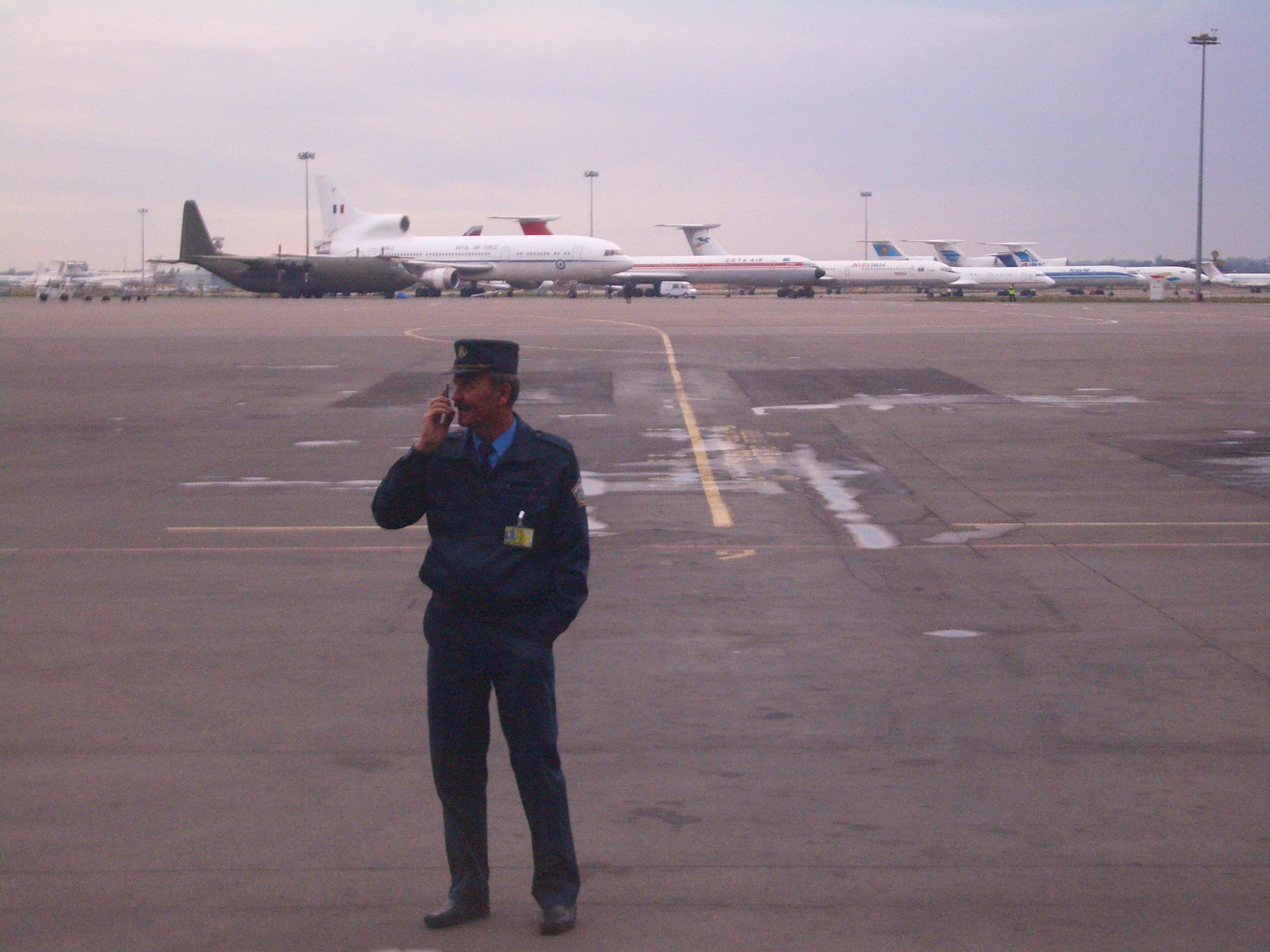 In Almaty International Airport